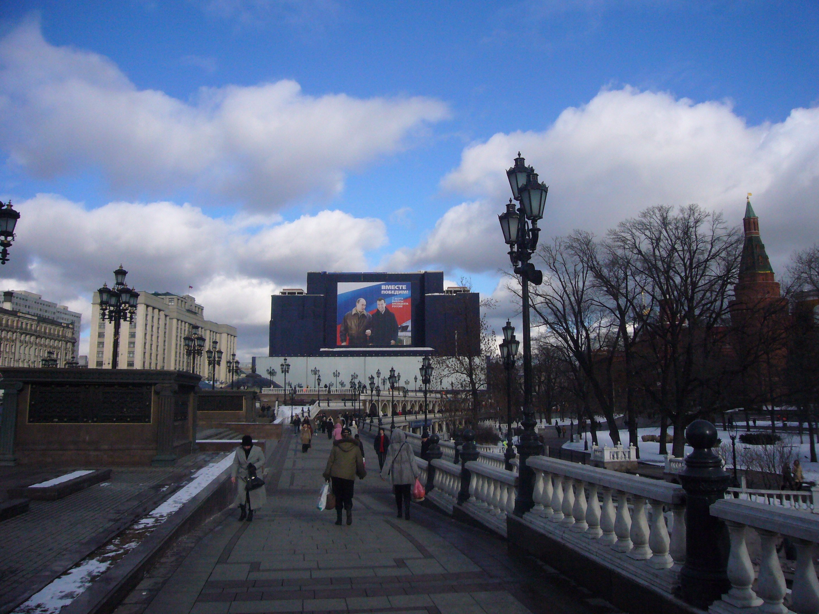 Together we win: a 2008 Russian Presidential Campaign banner showing V. Putin and D. Medvedev, in Manezh Square, Moscow, Russia.